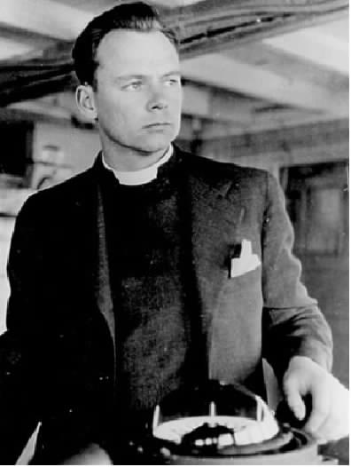 John Stenley Grauel on the SS Exodus